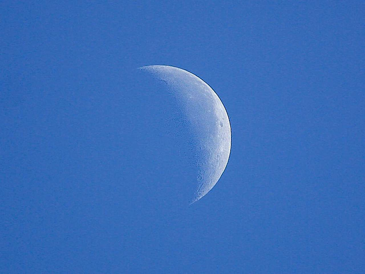 Image title: White moon on blue sky Image from Public domain images website